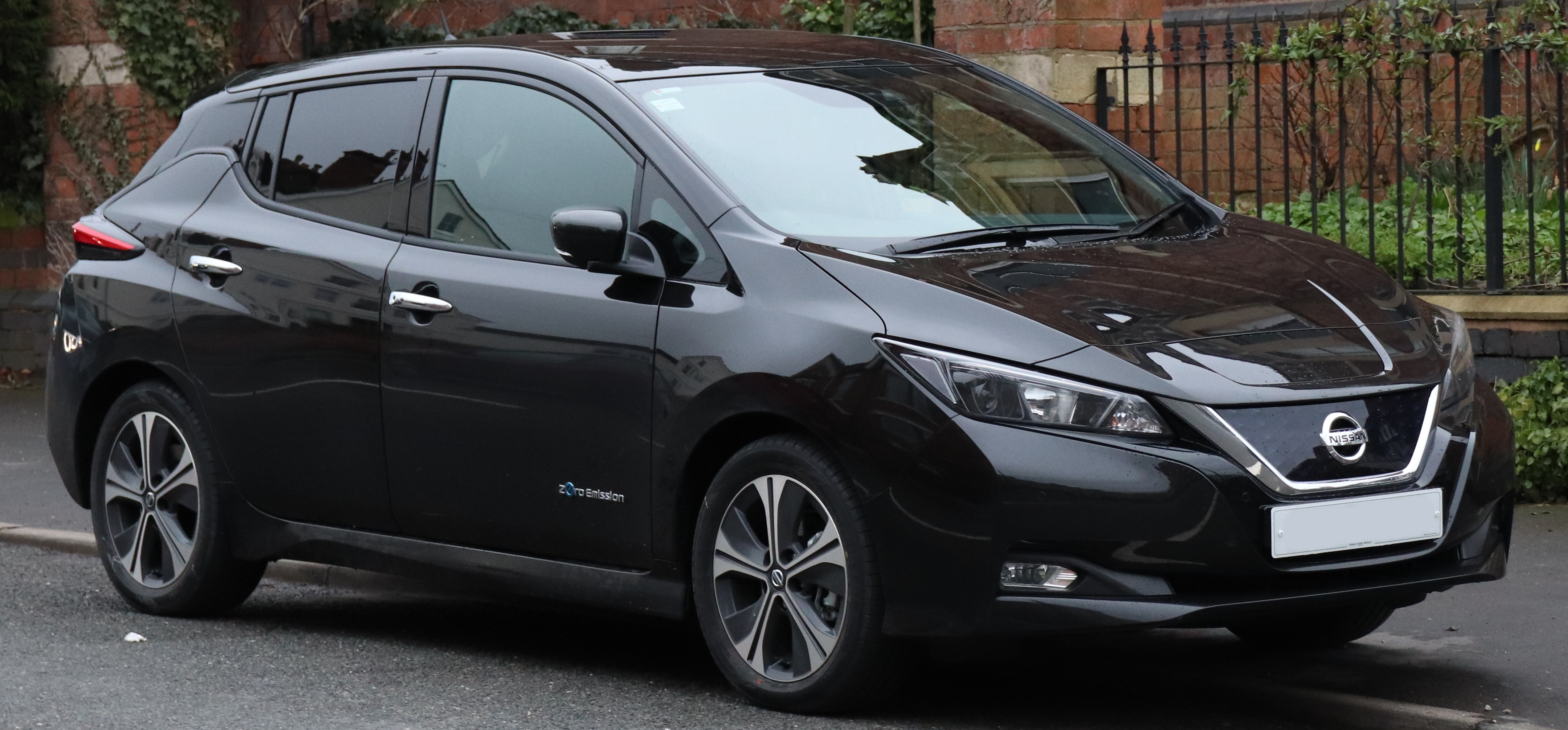 2018 Nissan Leaf 2.Zero Front Taken in Leamington Spa